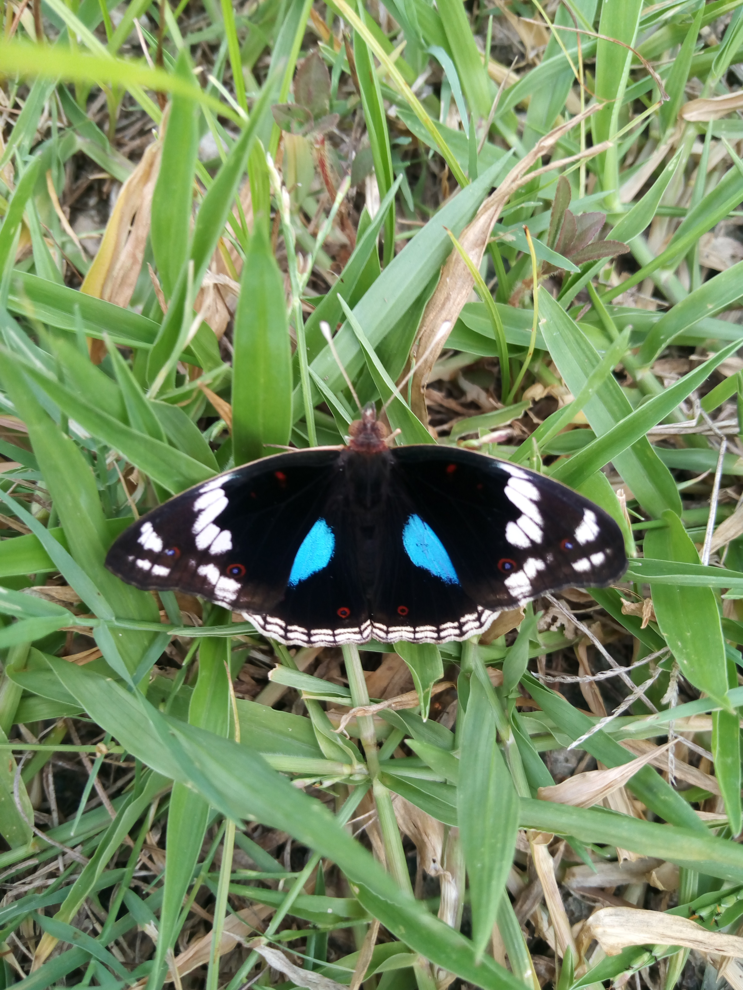 Hii ni picha ya kipepeo akiwa kwenye nyasi